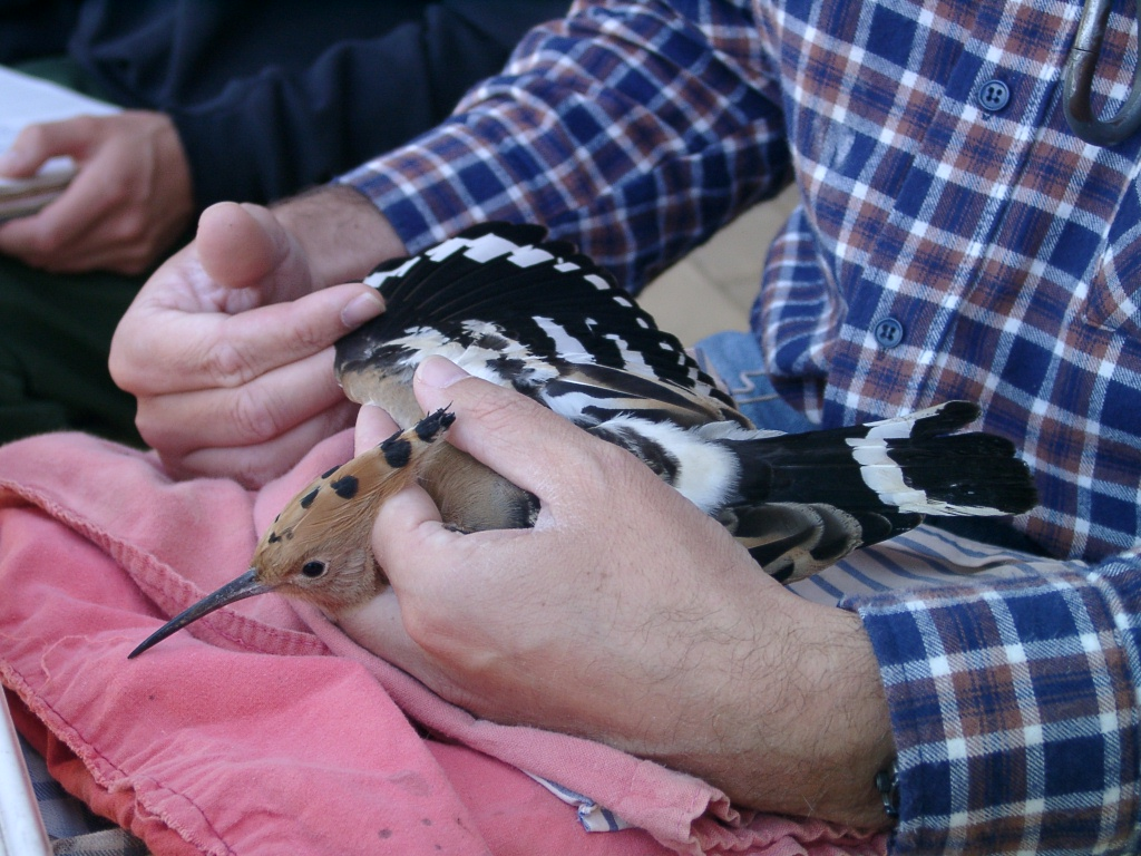 Bird ringing (bird banding) sequence, picture 5: Determining the bird's characteristics like sex, age, and physical condition (Hoopoe, Upupa epops). Cruzinha, Portimão, Portugal.